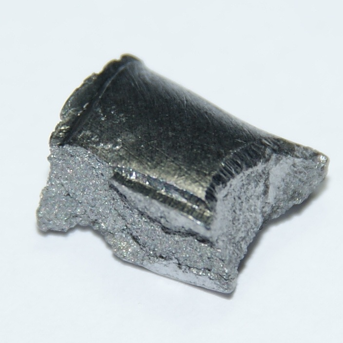 Terbium is a relatively resistant, sparsely toxic lanthanoid. It has some special technical applications, especially in optoelectronics. Terbium(III)-ions can fluoresce very good in green and yellow, so terbium is used in in CRT television sets, similar to europium.